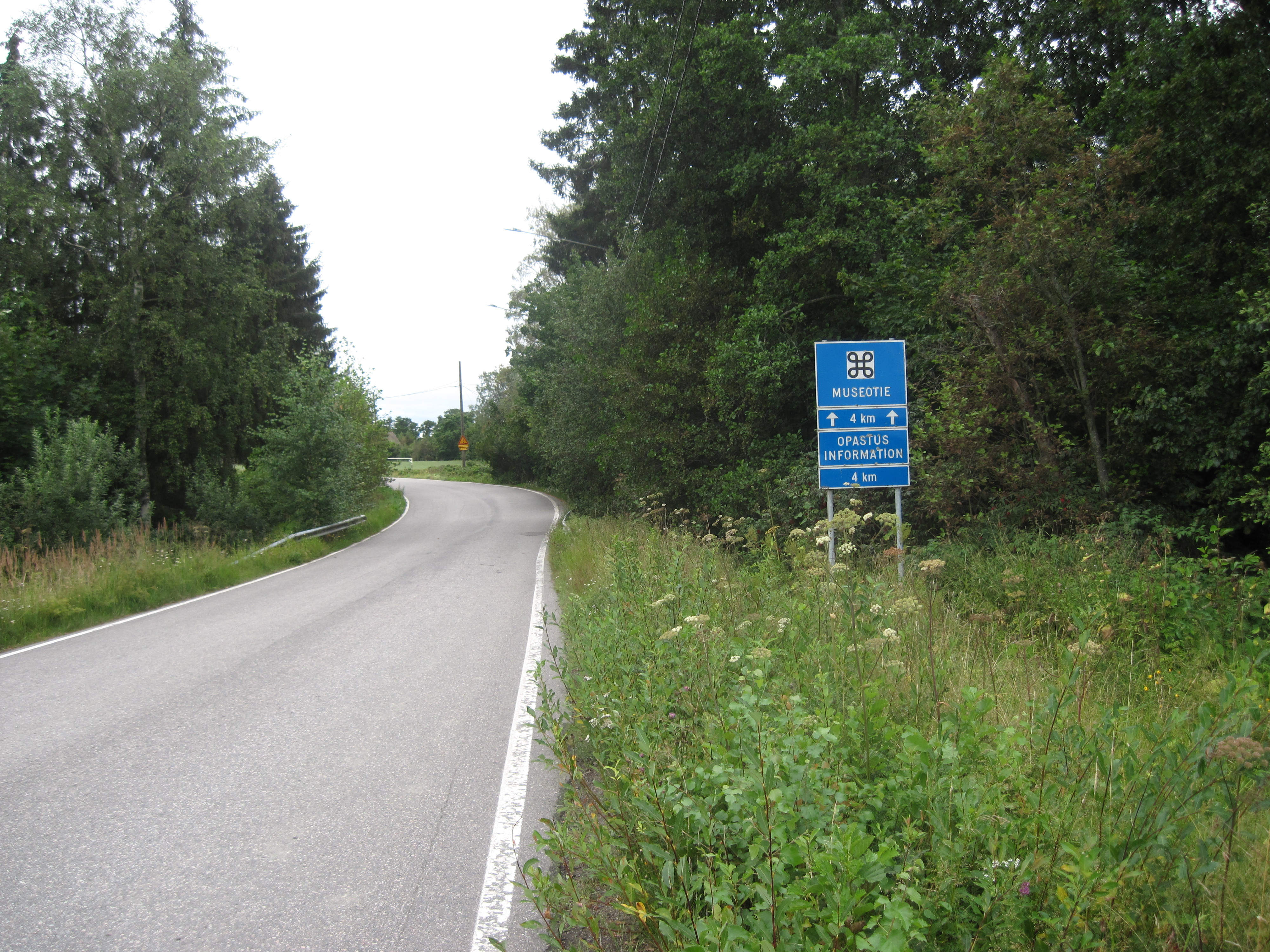 Rantatie (Stranway), historic road at Tuusula, Finland